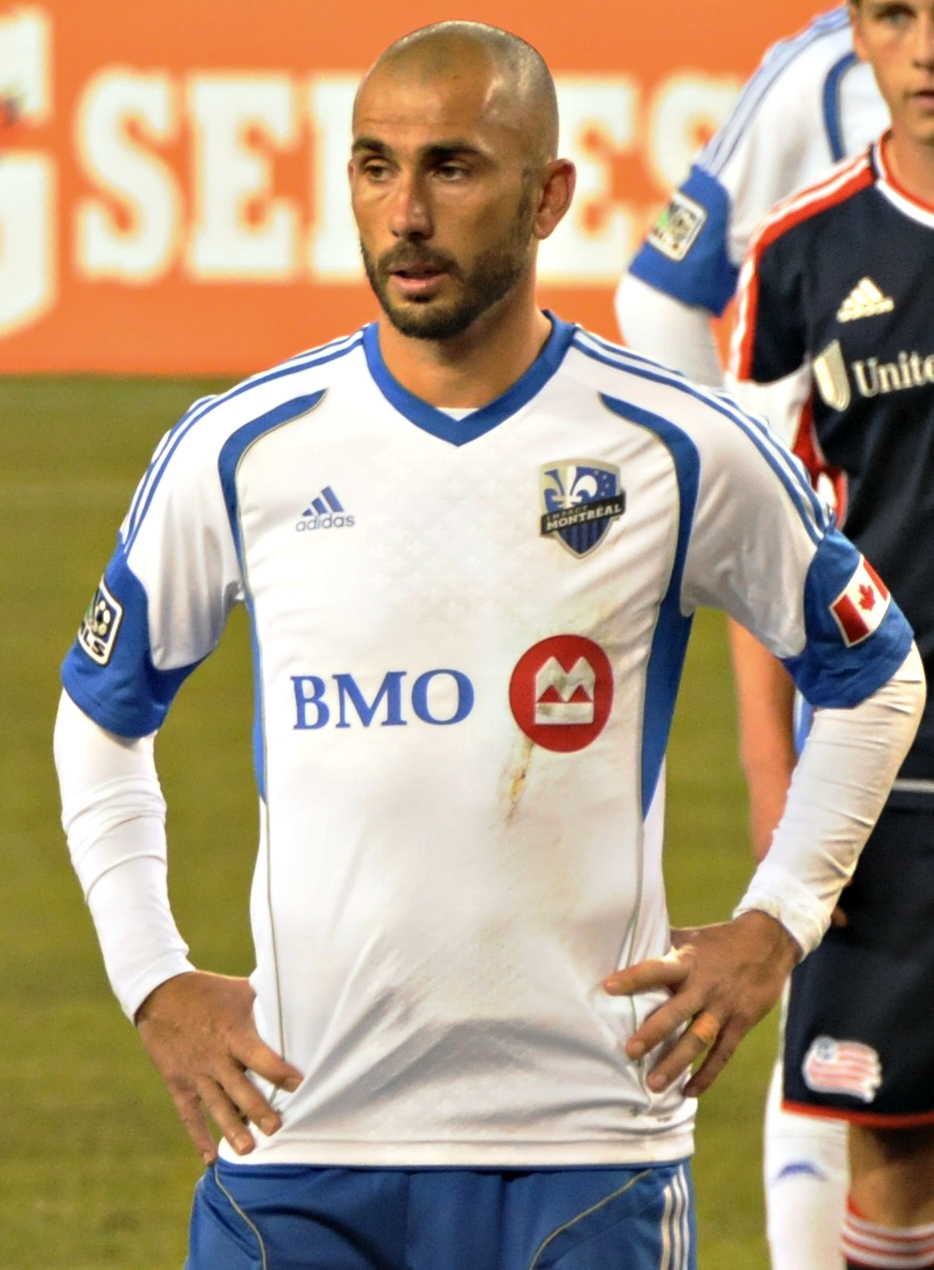 Marco Di Vaio of the Montreal Impact during a Major League Soccer match against the New England Revolution in Foxborough, Massachusetts, on 8 September 2013.